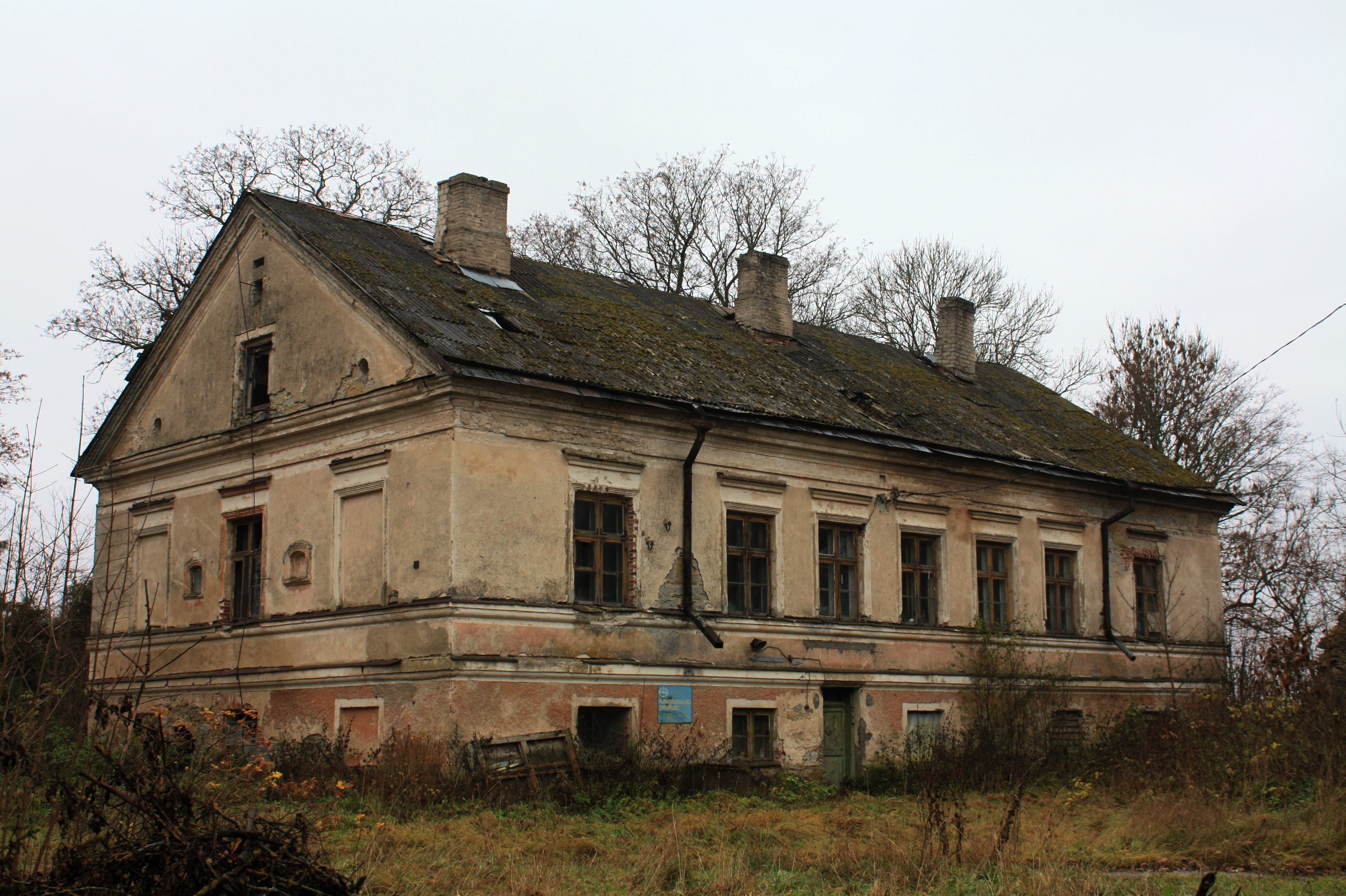 Rae manorhouse